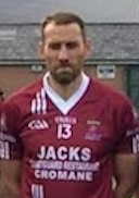 Sean O'Sullivan in the Cromane GAA Club colours.